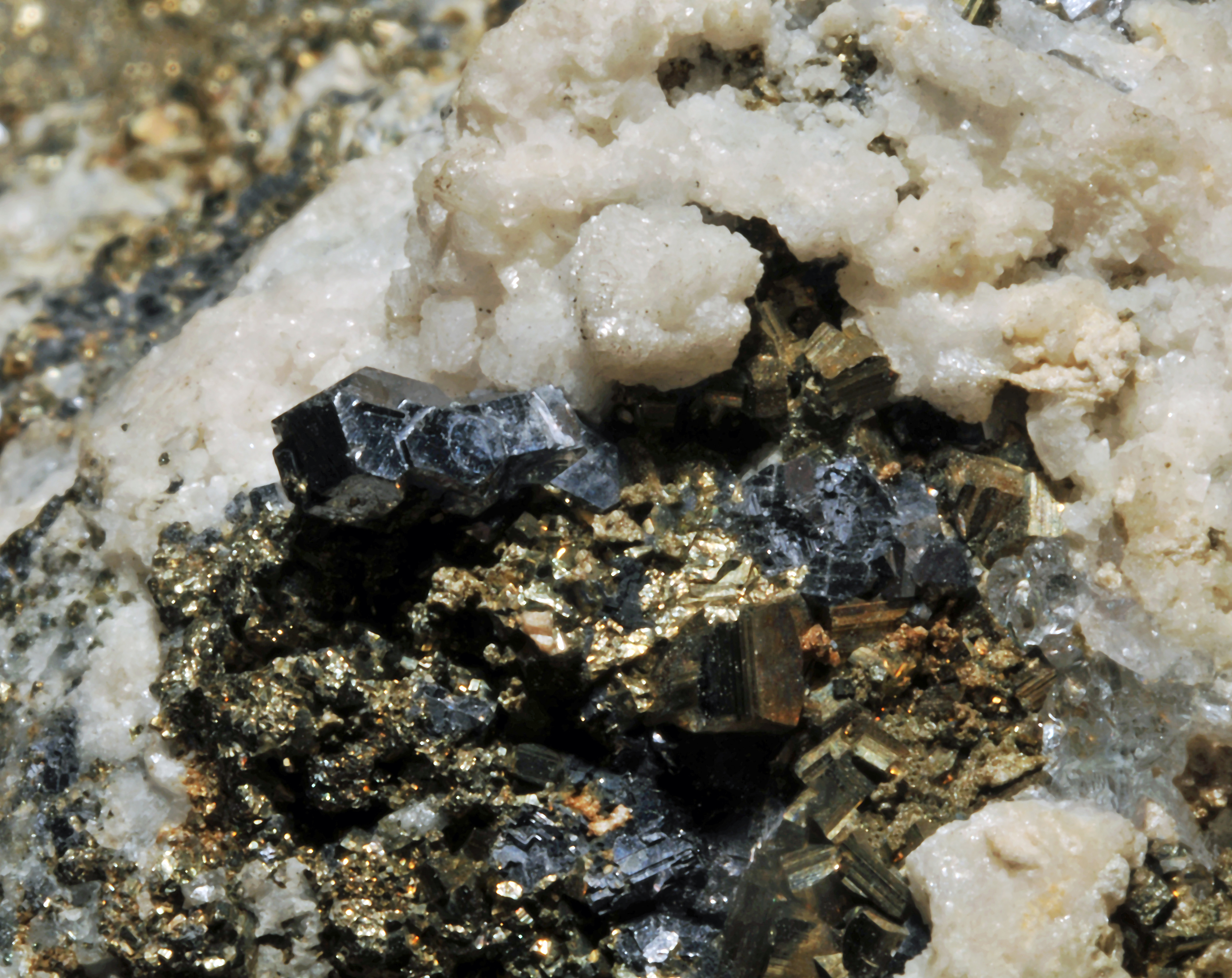 arsenopyrite, pyrite, calcite, quartz : Potosi Mine (El Potosi Mine), Francisco Portillo, West Camp, Santa Eulalia District, Mun. de Aquiles Serdán, Chihuahua, Mexico